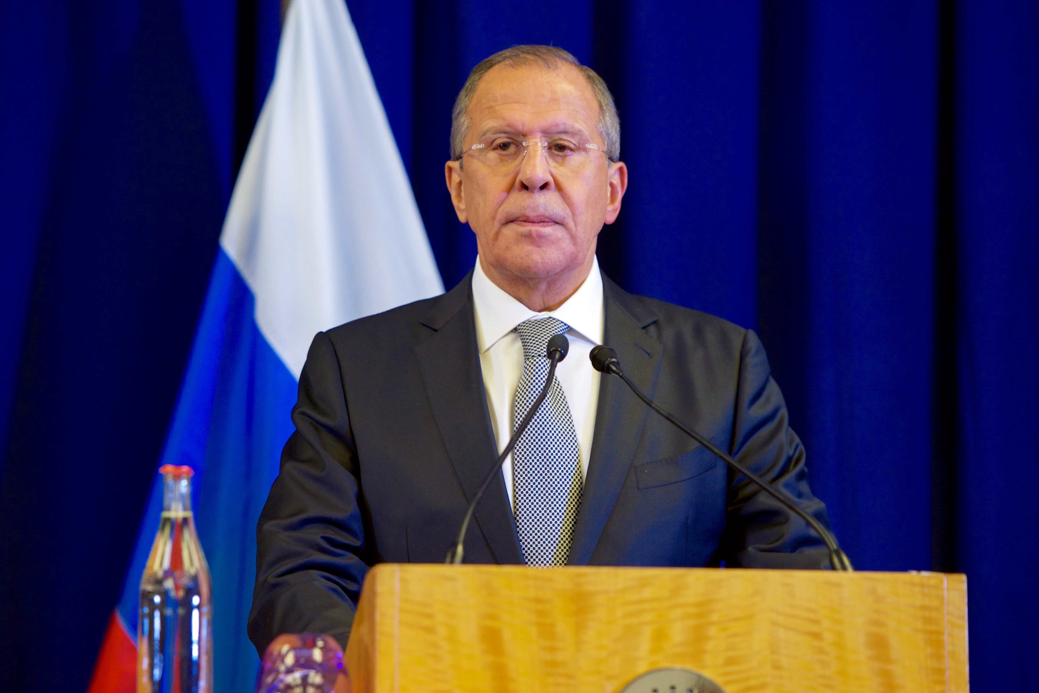 Russian Foreign Minister Sergey Lavrov looks out as U.S. Secretary of State John Kerry addresses reporters on September 9, 2016, at the Hotel President Wilson in Geneva, Switzerland, after the United States and Russia agreed to work together to target terrorists in Syria and relieve humanitarian suffering in the war-ridden country. [State Department Photo/ Public Domain]